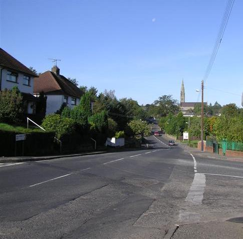 Dungannon, County Tyrone, Ireland. Looking towards the town from the southeast.